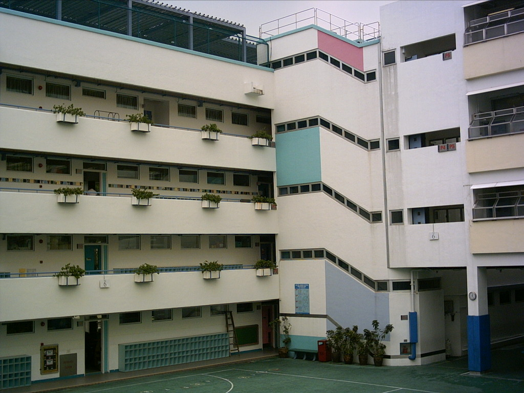 The silent Sha Tin Junior School in the summer holidays. Taken by myself in August, 2006.